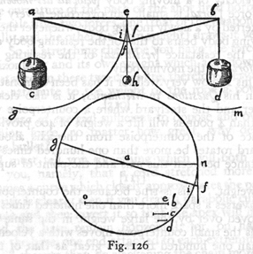 Figure 126 of Galileo's Two New Sciences out of the Fourth Day section